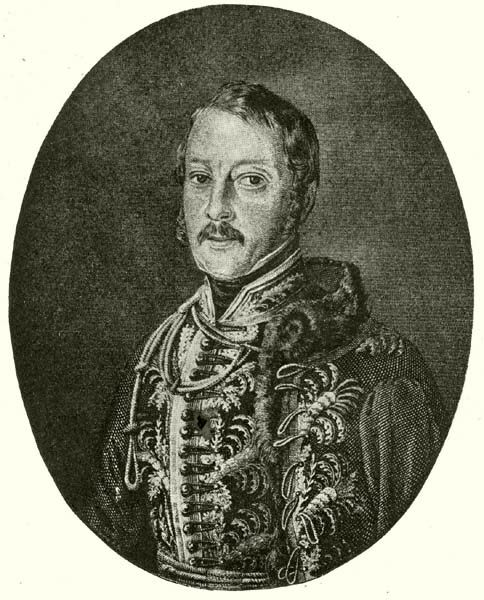 Baron Ignác Eötvös de Vásárosnamény, the Younger (1786–1851), Hungarian politician, jurist and bachelor of arts, comes of the county of Sáros.